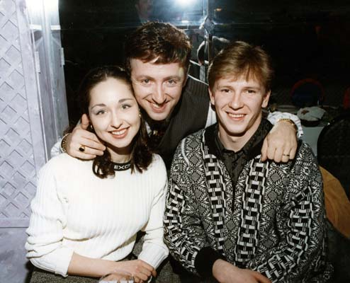 Victor Kanevsky and silver winners of Nagano Olympic Games in 1998. Victor choreographed their original dance.